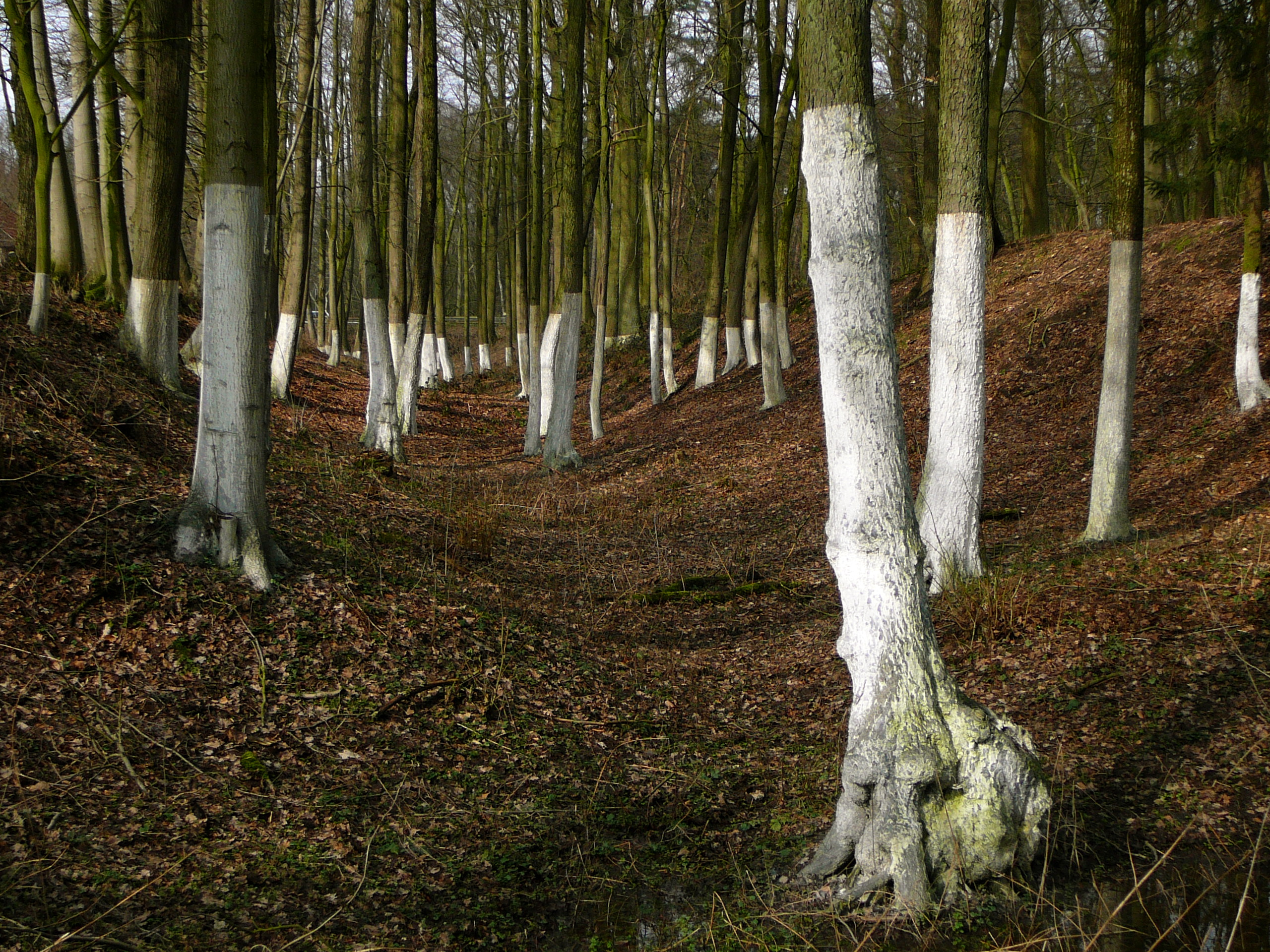 Photograph of the former Max-Clemens-Kanal near Emsdetten, Germany